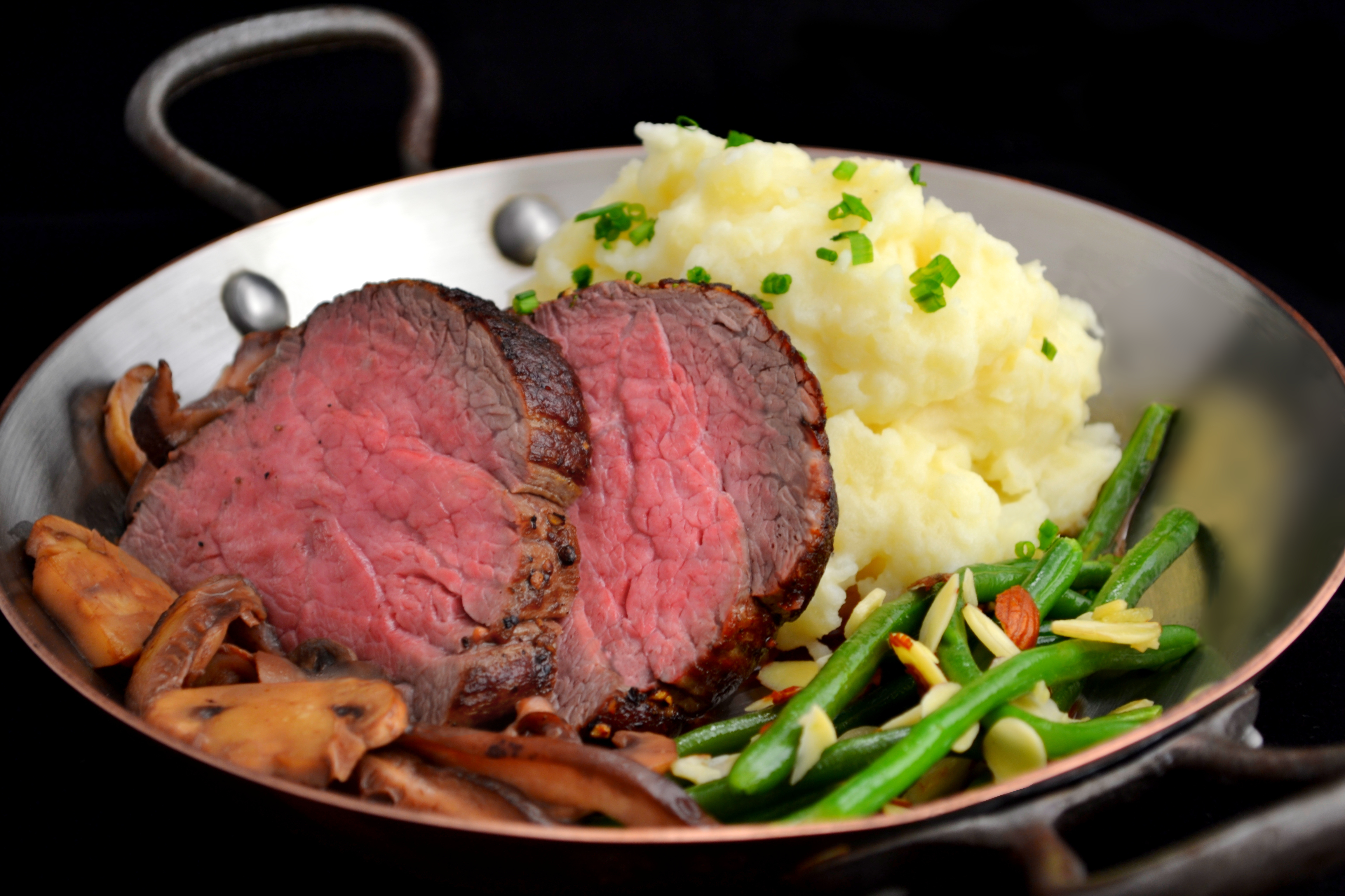 Filet of beef: a dish with whipped potatoes, a mixture of mushroom varieties, and green beans amandine.